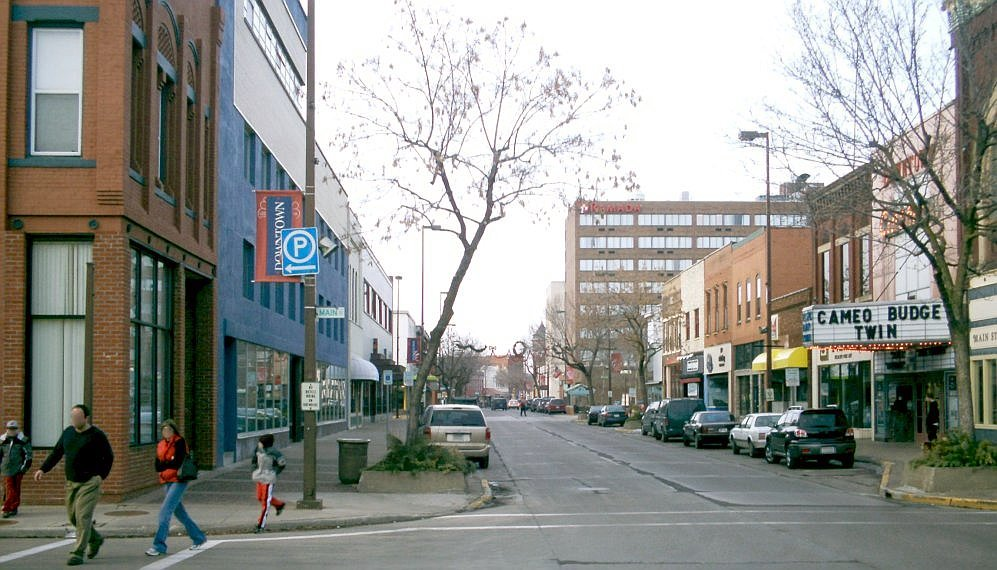 Eau Claire, Wisconsin, United States of America - Barstow street looking north 2005